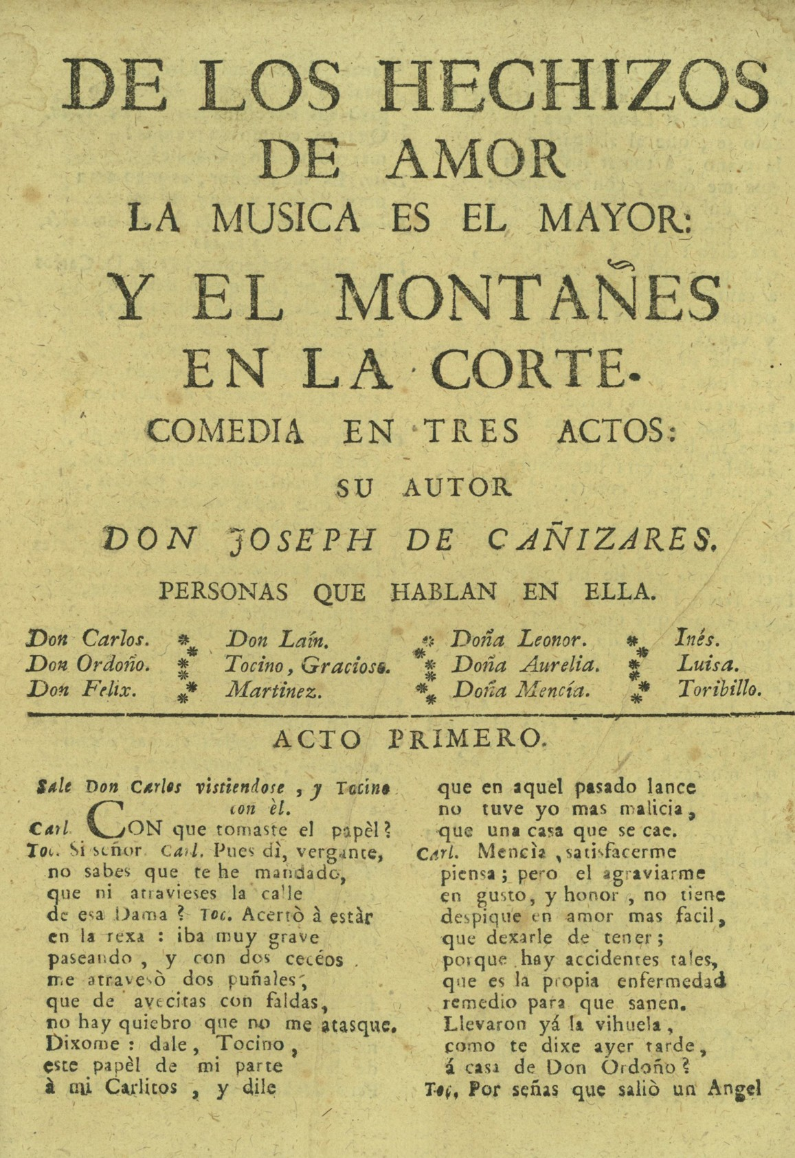 First page of José de Cañizares' book "De los hechizos de amor la musica es el mayor, y el montañès en la Corte", 1764.